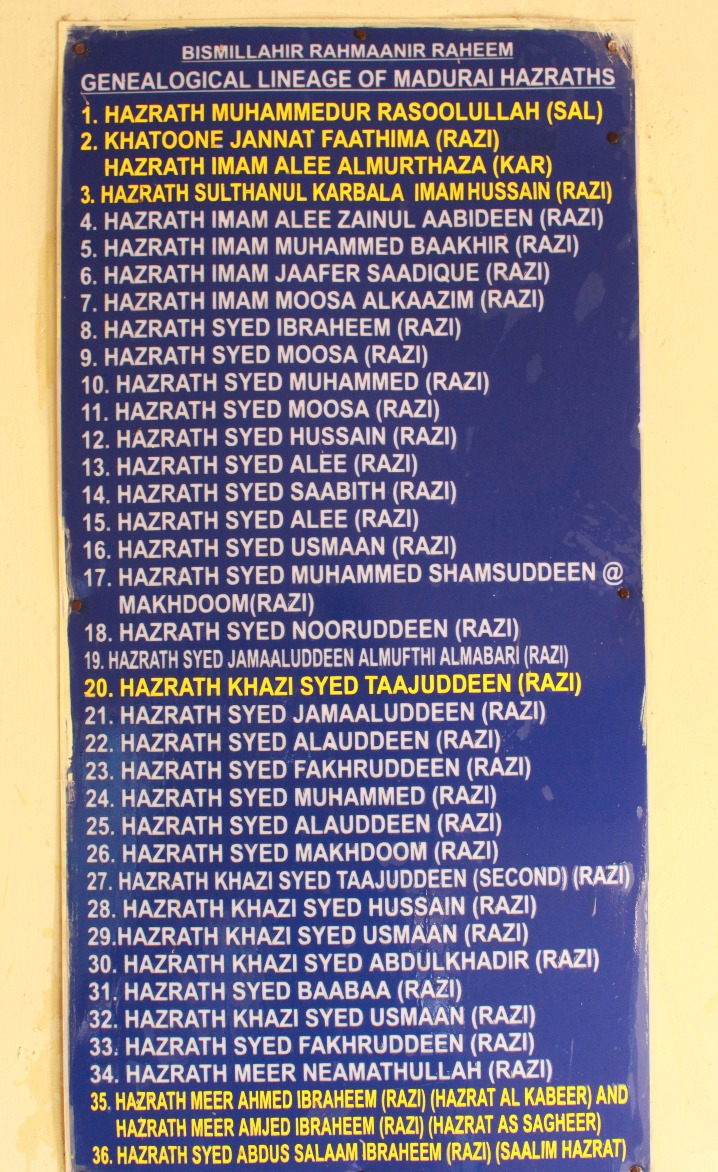 Shajra at Maqbara